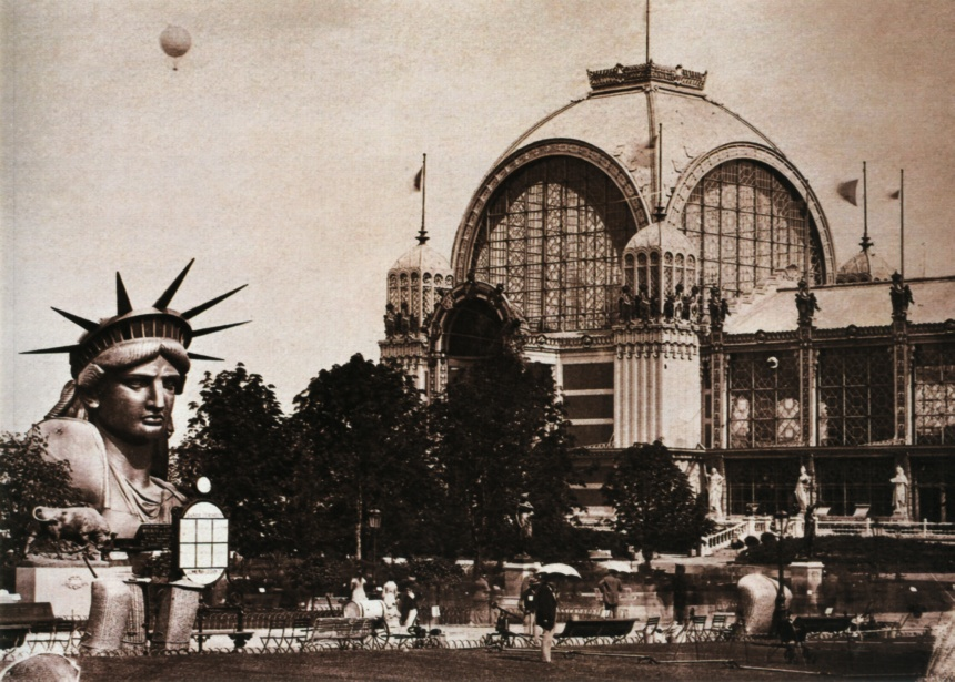 The Palais du Champ-de-Mars ande the head of the Statue of Liberty, Exposition Universelle of Paris (1878).